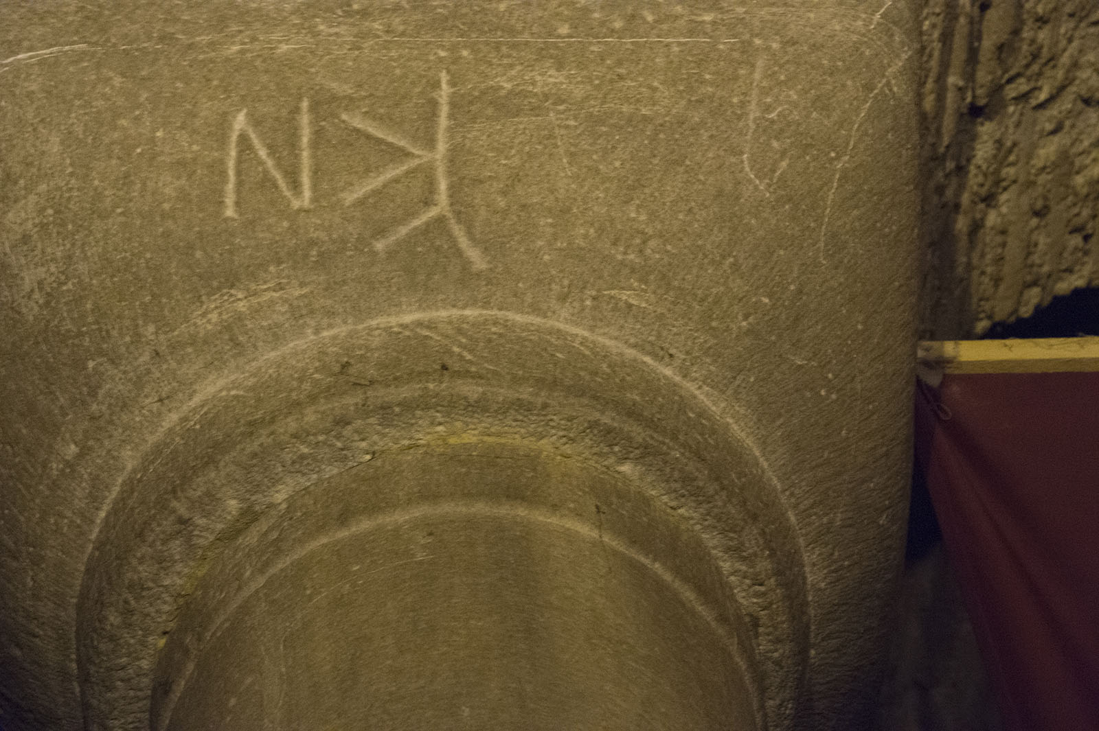 As noted in the article many columns have a mason's mark in Greek